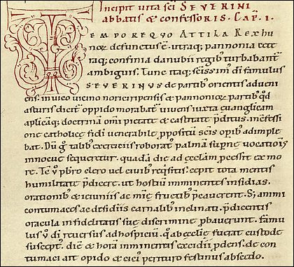 Page of a 12th century copy of the Vita Sancti Severini, the biography of Saint Severinus of Noricum, from the Codex Vindobonensis 1064